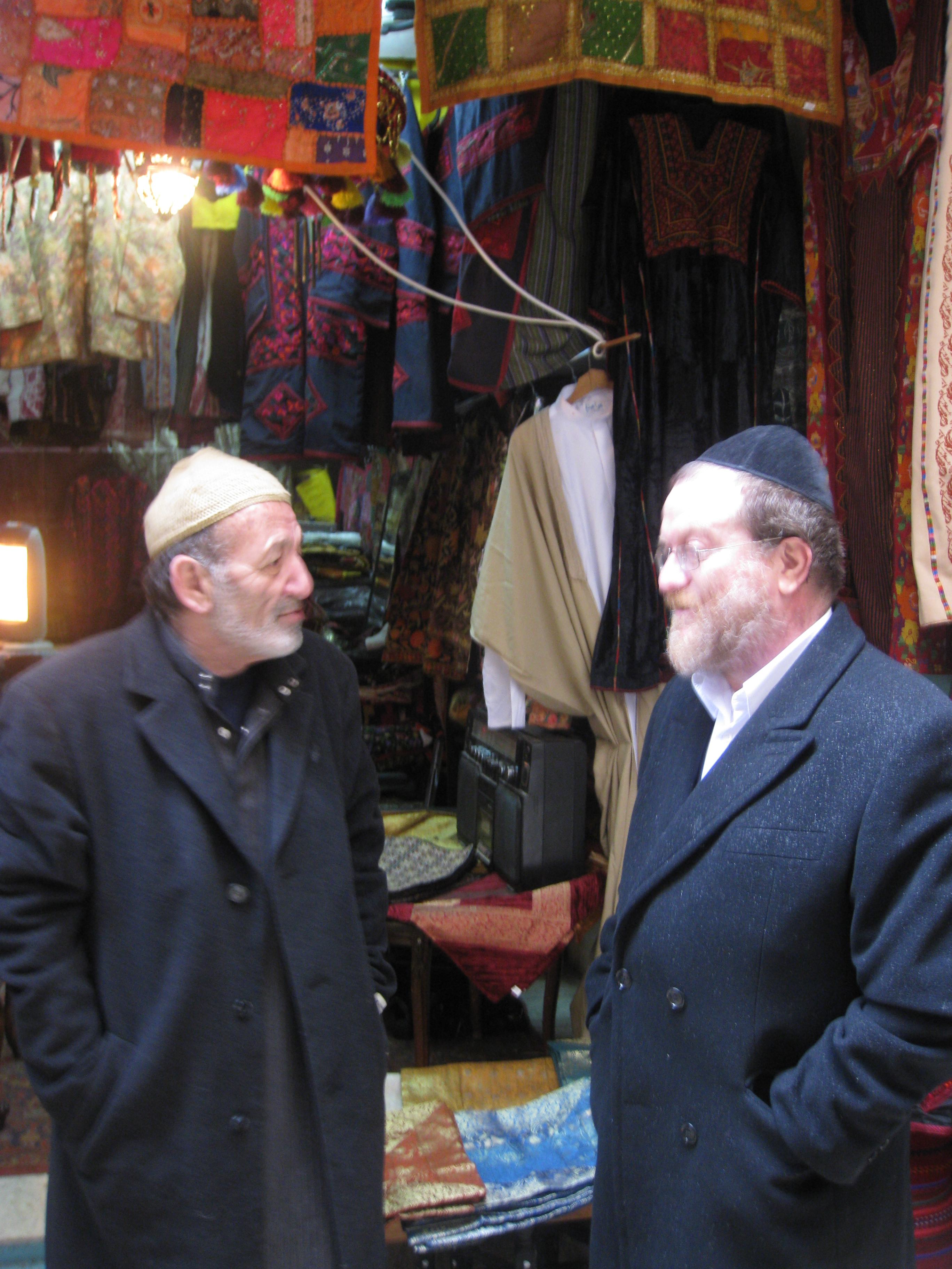 The Christian Quarter - a christian arab and a jew הרובע הנוצרי בעיר העתיקה של ירושלים